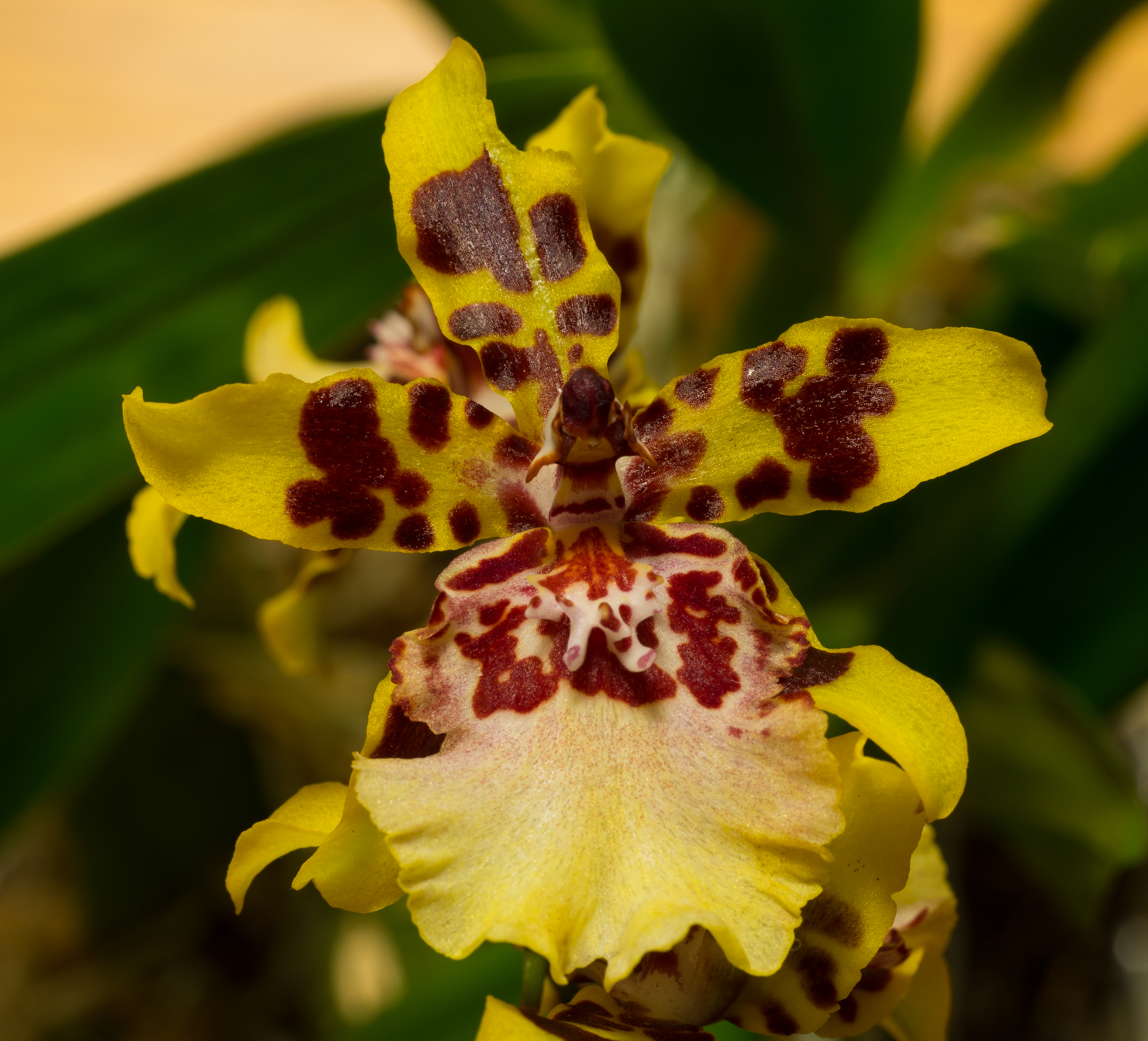 Oncidium sphacelatum orchid